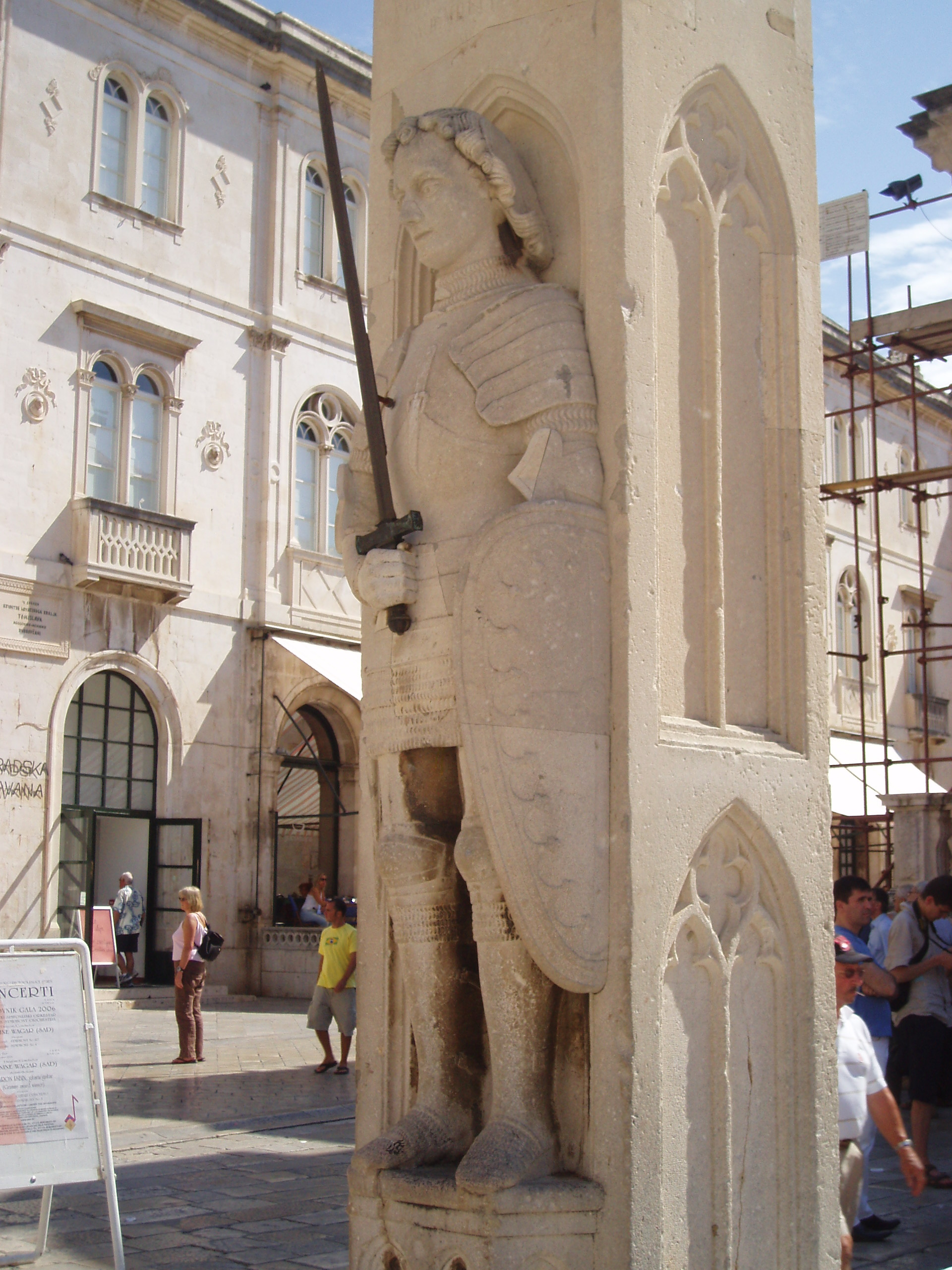 The Orlando's column in Dubrovnik